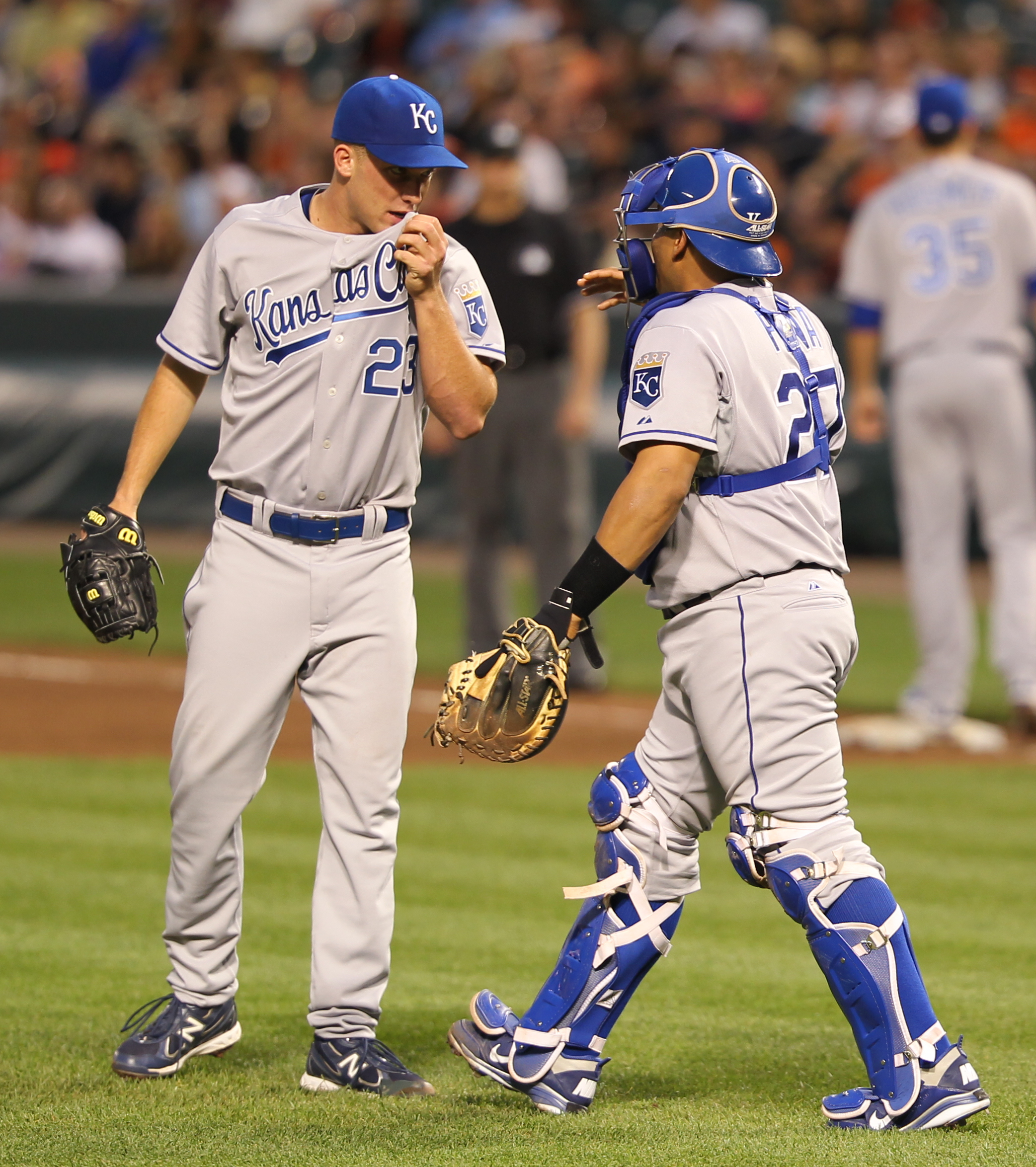 Kansas City Royals at Baltimore Orioles May 24, 2011